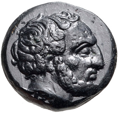 Tissaphernes head